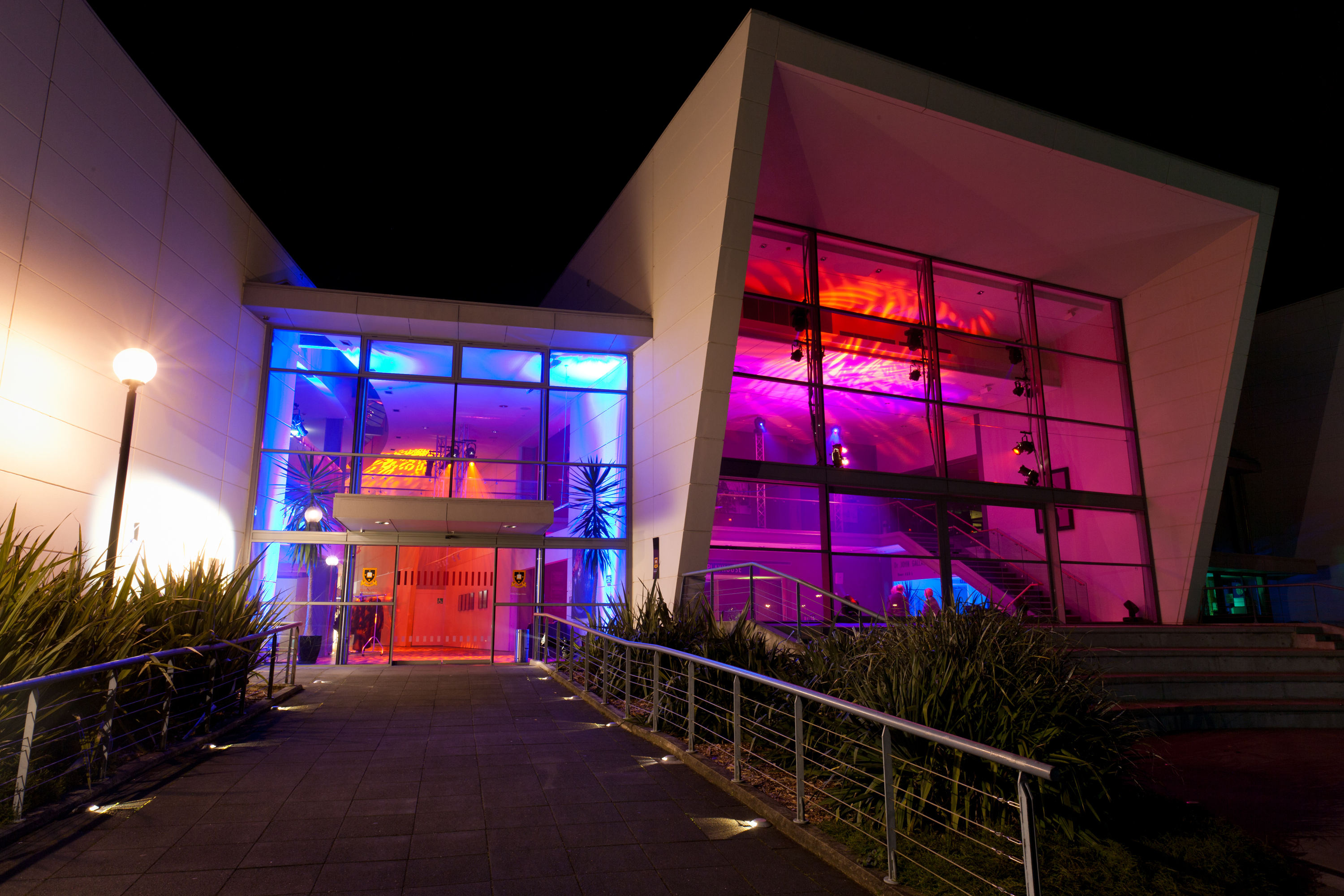 The Gallagher Academy of Performing Arts, located on the University of Waikato's Hamilton campus, houses specialist performing and teaching facilities and the Calder and Lawson gallery and regularly hosts university and external events.